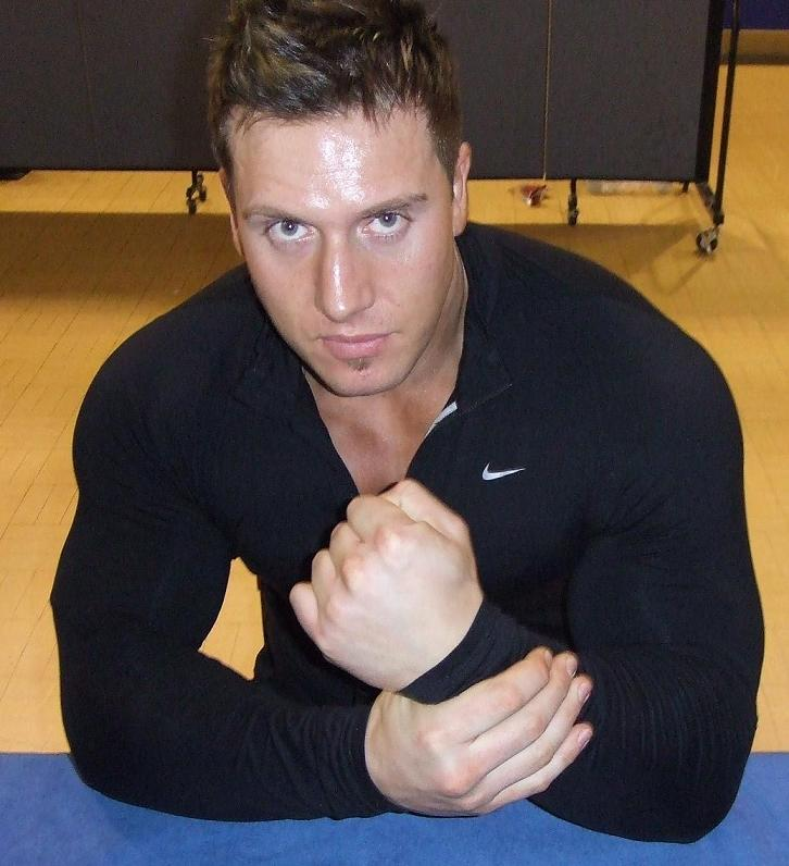 Picture of Rob Terry, taken by myself on 26th January 2010 at the Bournemouth International Centre in Bournemouth, England, before a TNA Wrestling event.